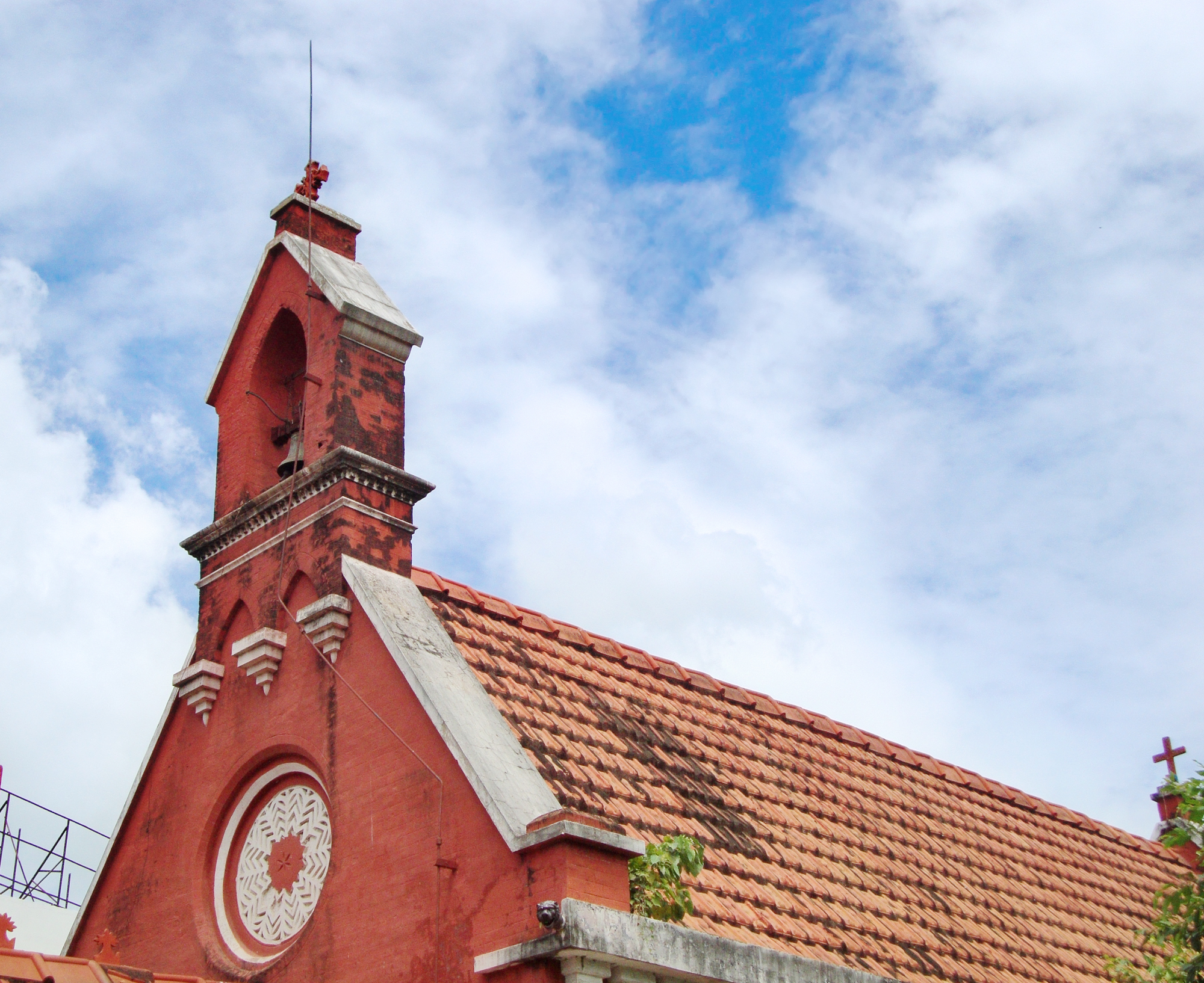 The Church of Bardhaman